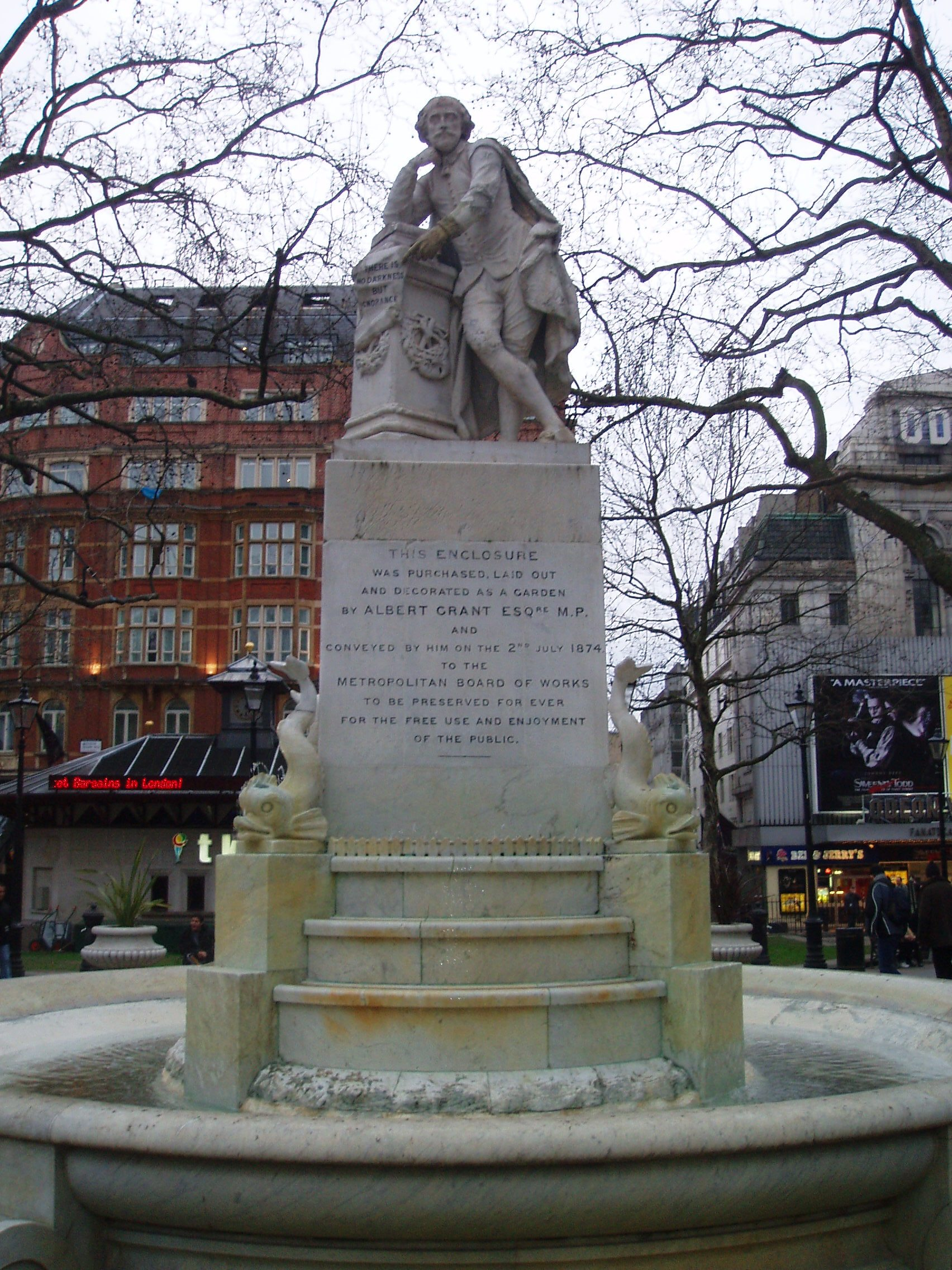 Shakespeare fountain and statue. Leicester Square, London, UK.